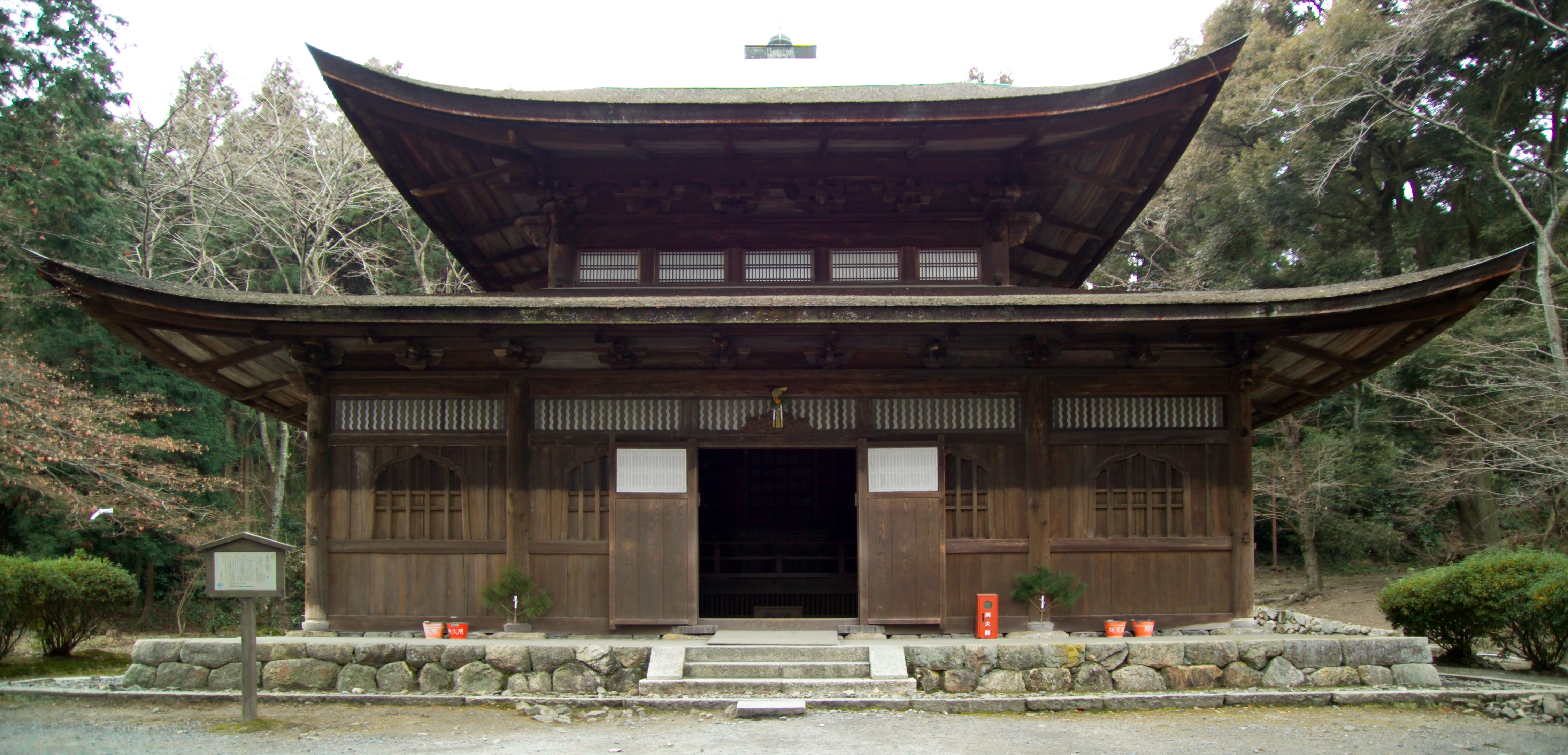 This building is the Issaikyō-zō 一切経蔵 at Mii-dera, a Buddhist temple in Otsu, Shiga Prefecture, Japan. The original file This file (Same exposure with verticals parallel) I took the photo and contribute my rights in it to the public domain; individuals and organizations retain rights to images in it.